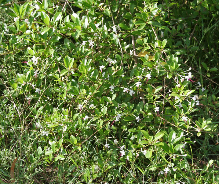 Seaside clerodendrum, Common Hedge Bower or Van-jai/ Koynel Clerodendrum inerme in Hyderabad , India.